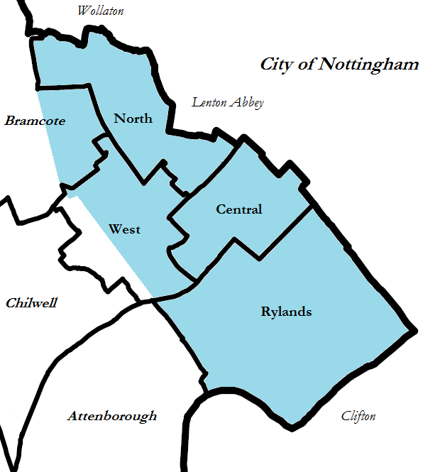 Map of wards and historic town area (light blue) of Beeston